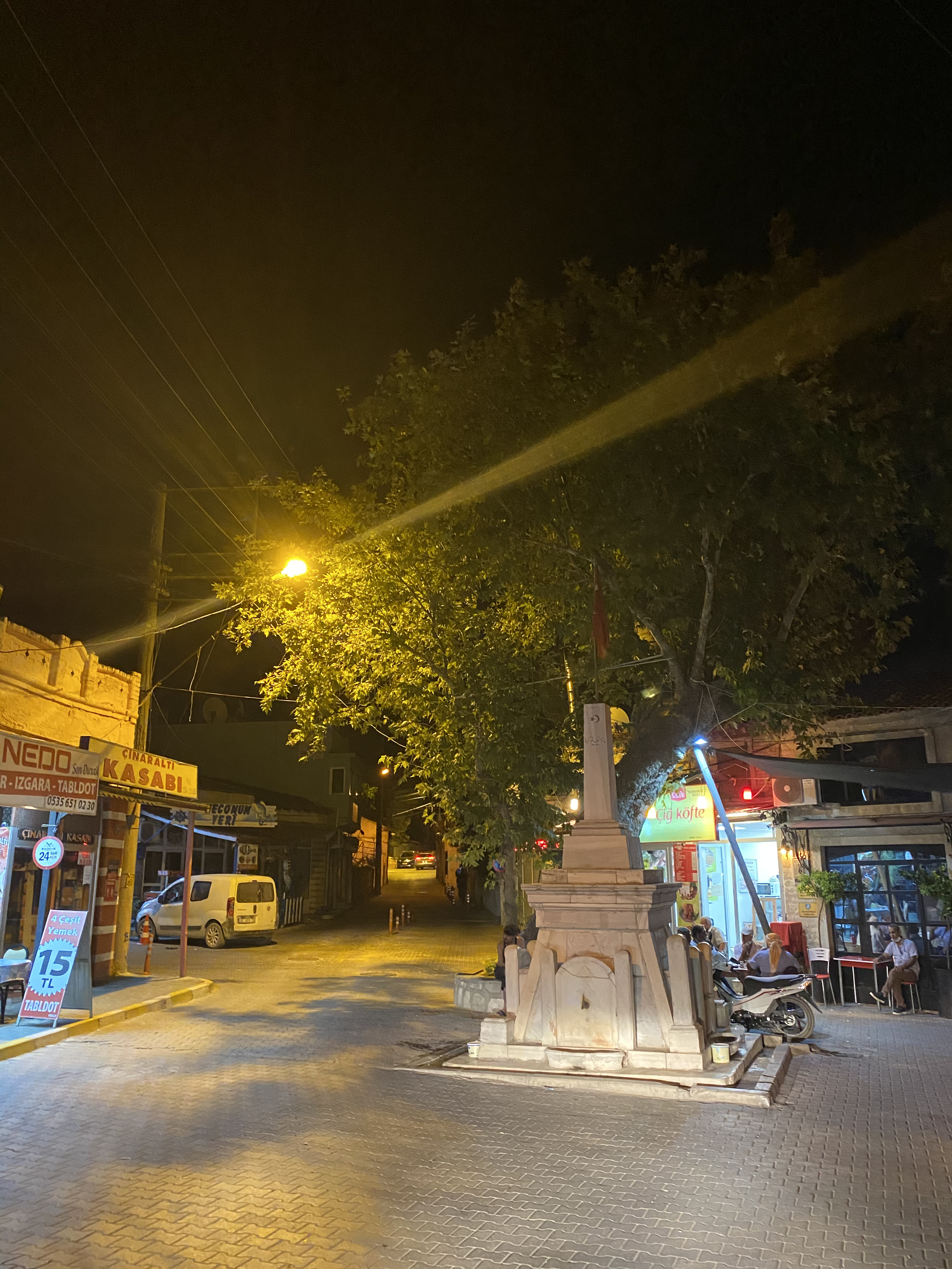 Urla Mermerli Cesme